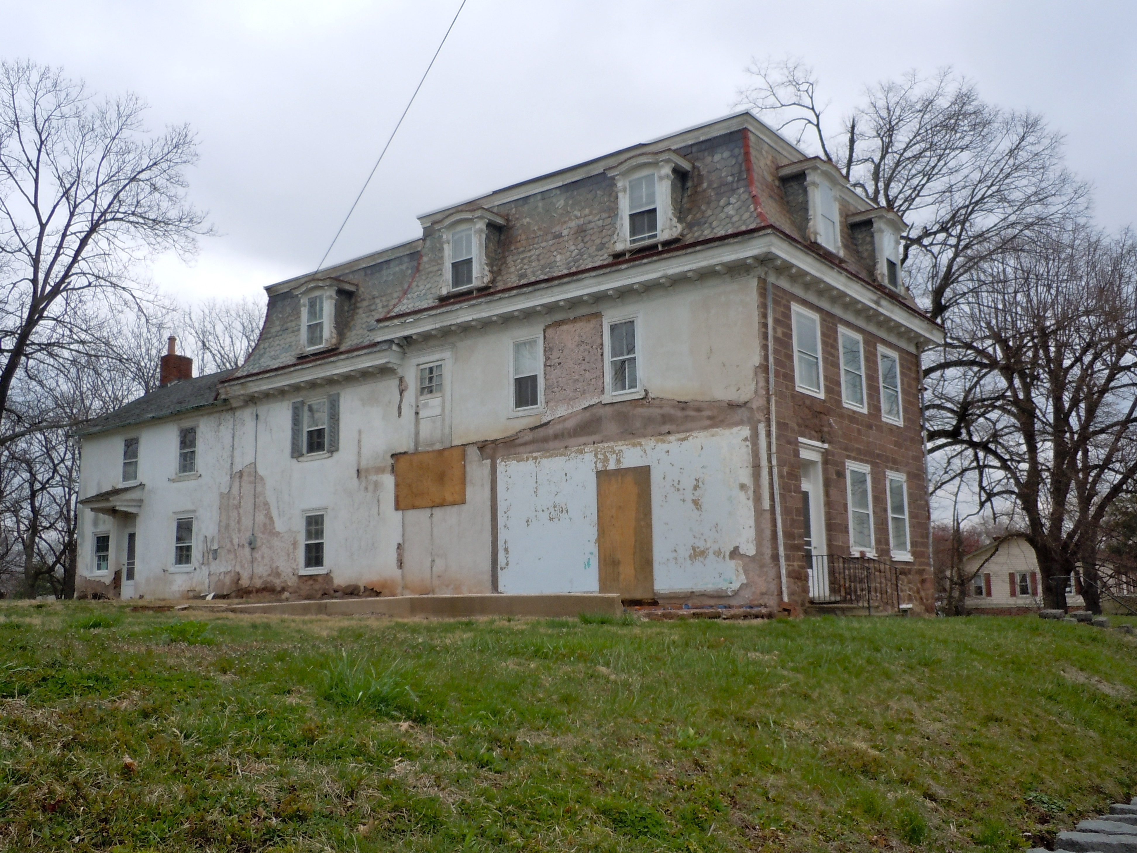 Home of Frederick Muhlenberg, son of Henry Melchior Muhlenberg, in Trappe, Montgomery County, Pennsylvania. The younger Muhlenberg was the 1st Speaker of the US House of Representatives. The elder was the founding figure of Lutheranism in America. Marked by PHMC (state) historical marker (not visible).